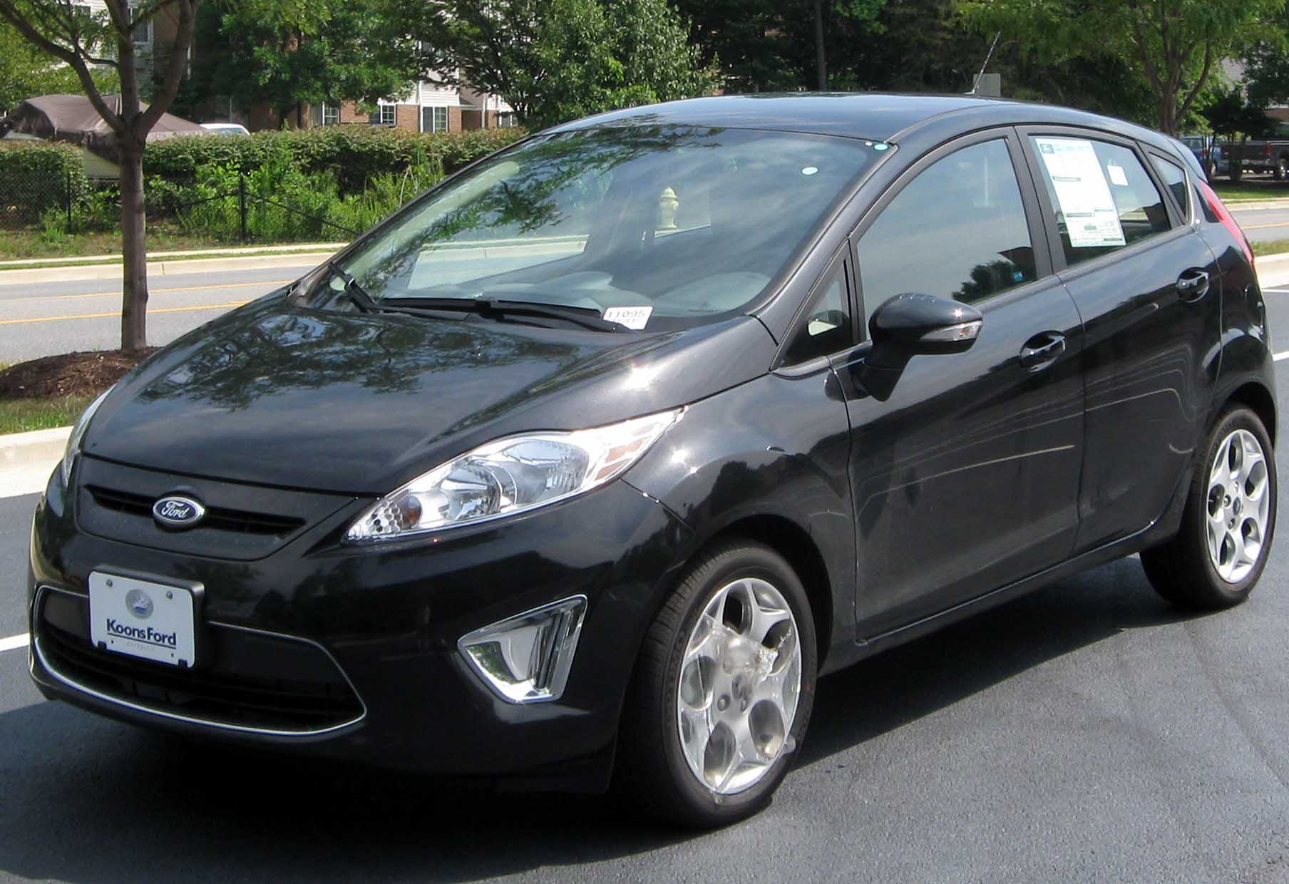 2011 Ford Fiesta photographed in Annapolis, Maryland, USA.